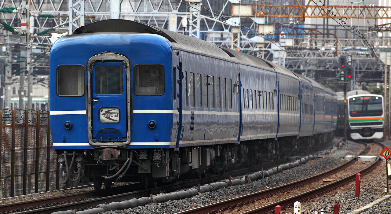 JNR 14 series sleeping cars of JR Kyushu. ( Passing by Tamachi Station, off the duty ).